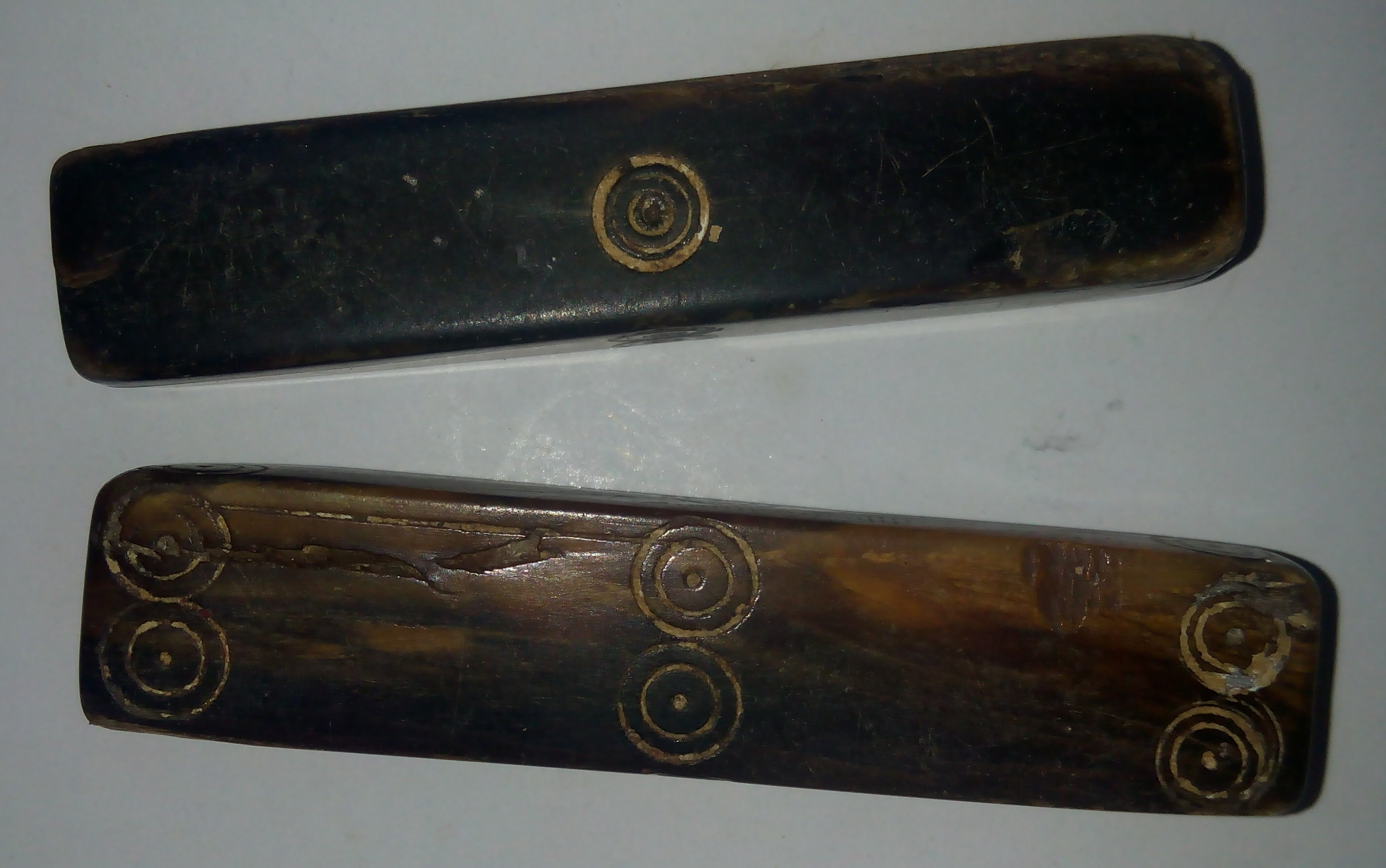 dice game of india